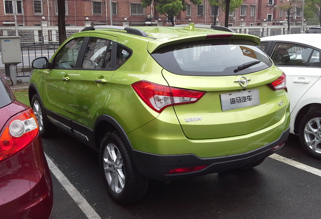 Haima S5 photographed in Shanghai, China.